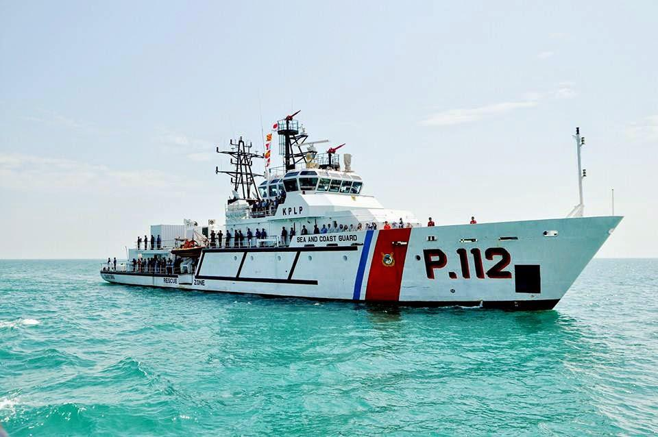 A ship belonging to the Indonesian Sea and Coast Guard